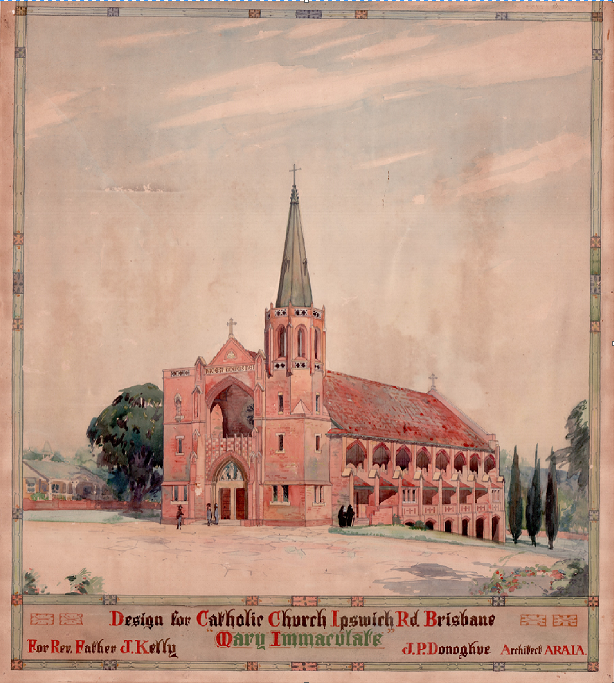 Concept sketch of Church. Circa 1920s